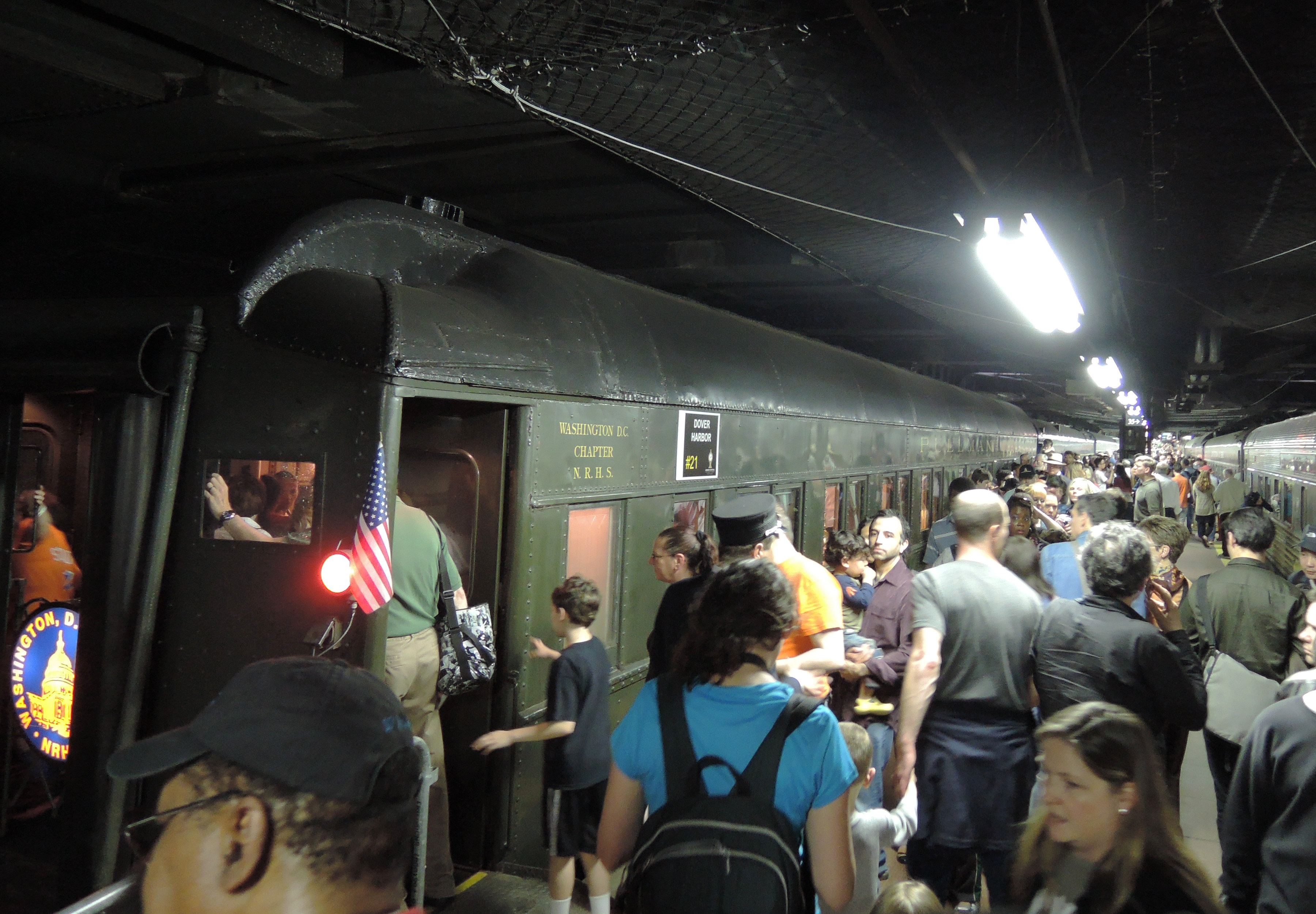 Looking north at Pullman car owned by Washington DC chapter of National Rail Historical Society.